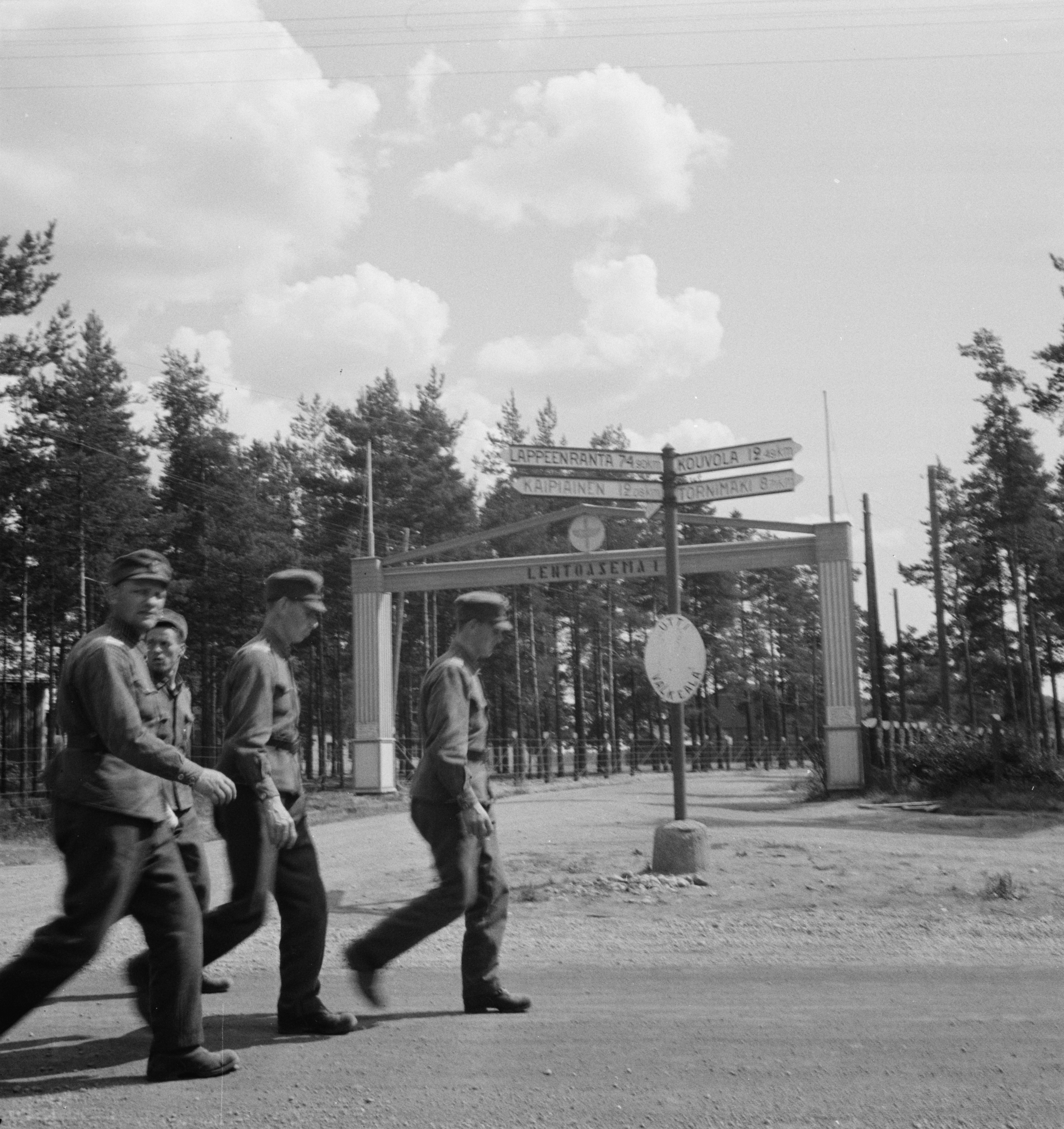 Soldiers in front of the gate of Utti airfield, Valkeala, Finland. Library of Congress title: Miscellaneous lot of photographs by Barbara Wright. Finland.